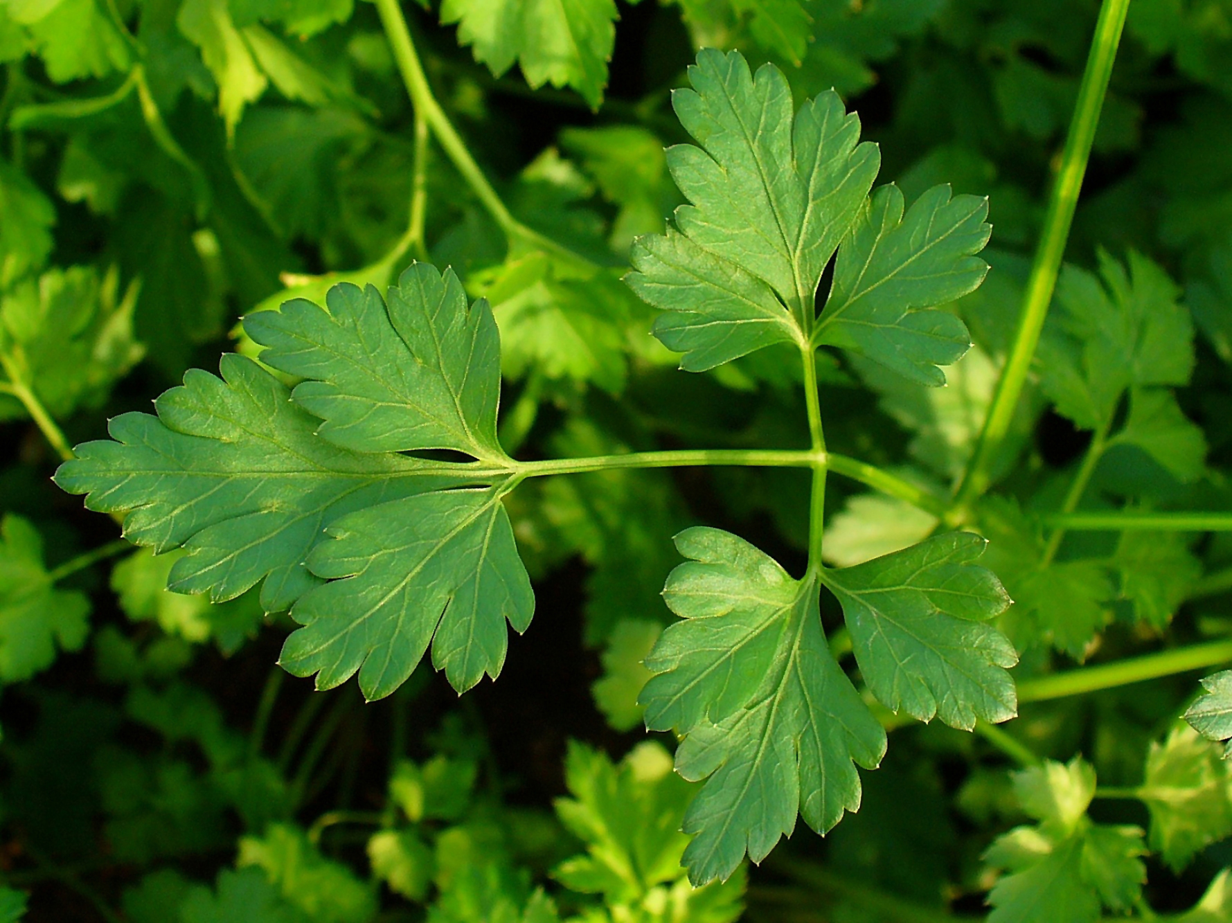 Petroselinum crispum, Parsley, leaf.